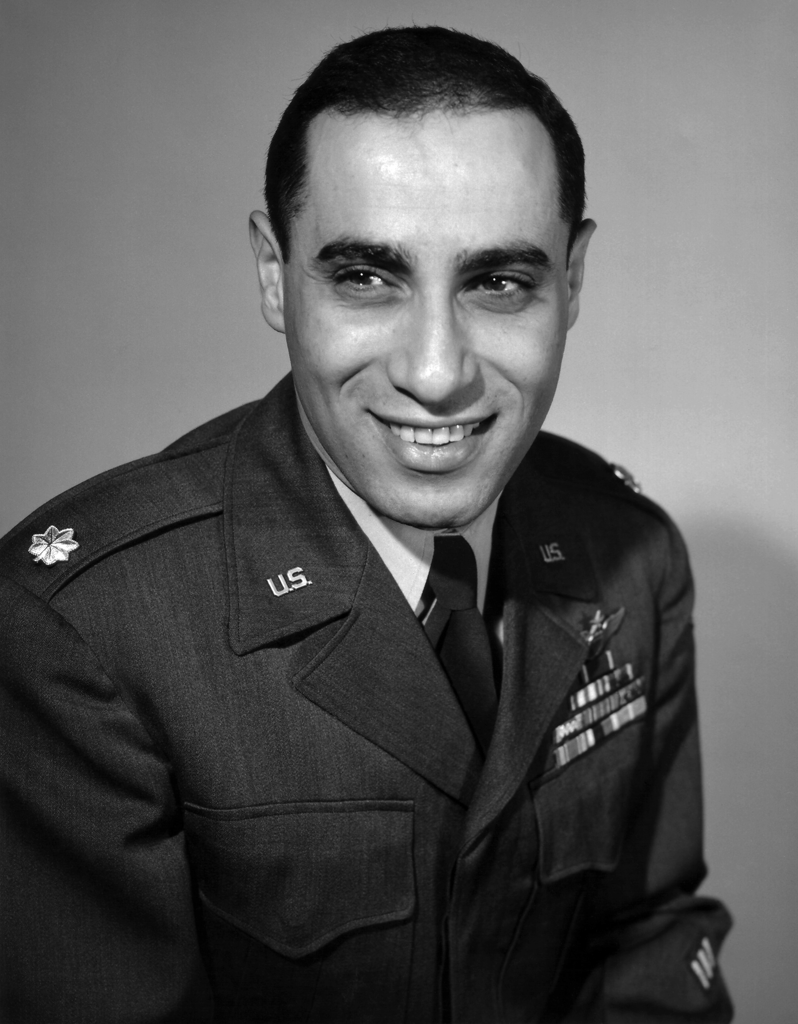 James Jabara in an Air Force photo, likely taken in the late 1950s, after his promotion from Major to LtCol.